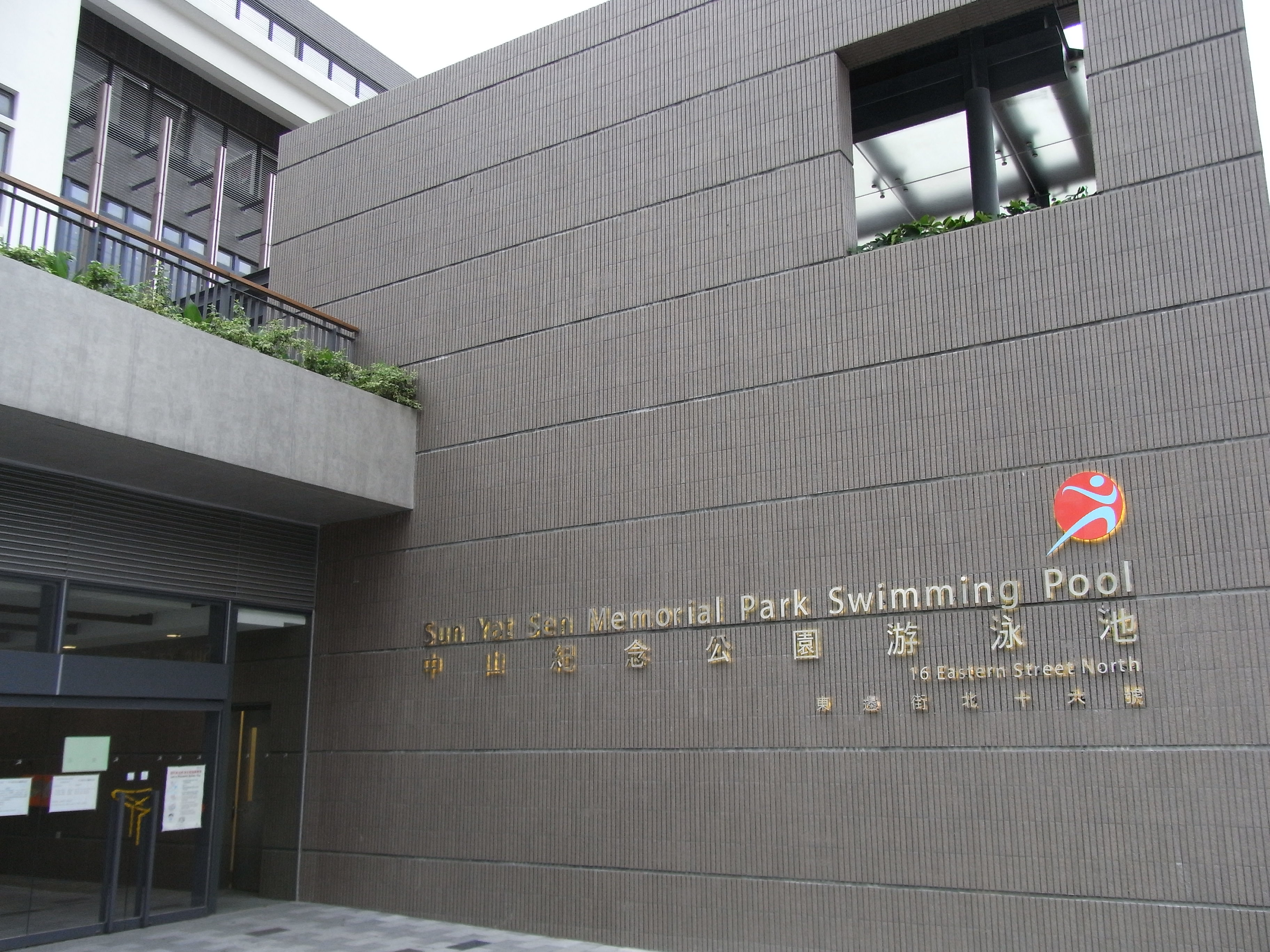 中山紀念公園, Sun Yat Sen Memorial Park, Hong Kong